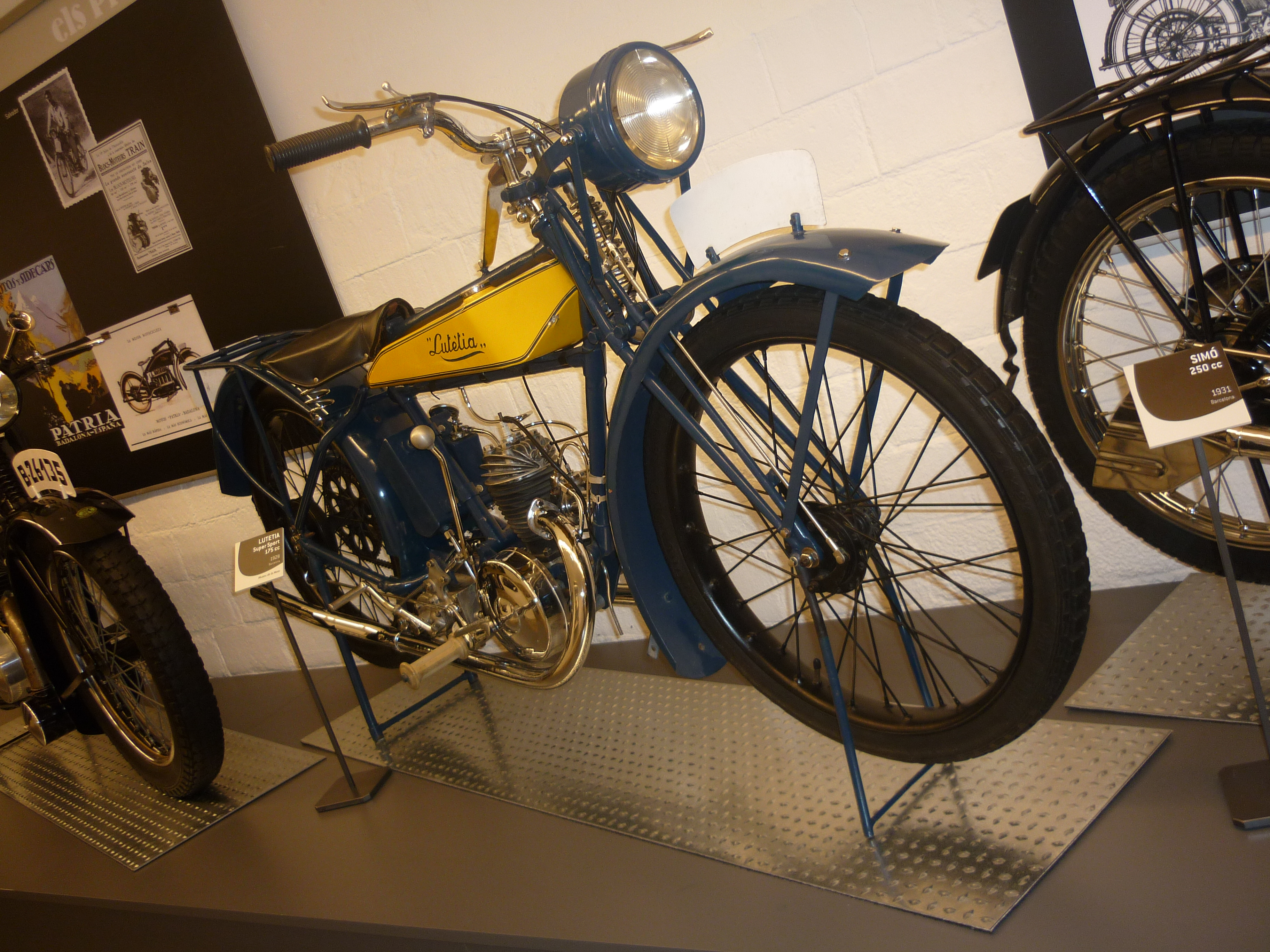 Lutètia Super Sport 175cc (1928). Museu de la Moto de Barcelona (Catalonia).